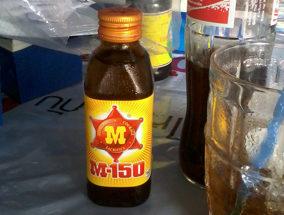 Thailand Energy drink "M-150".